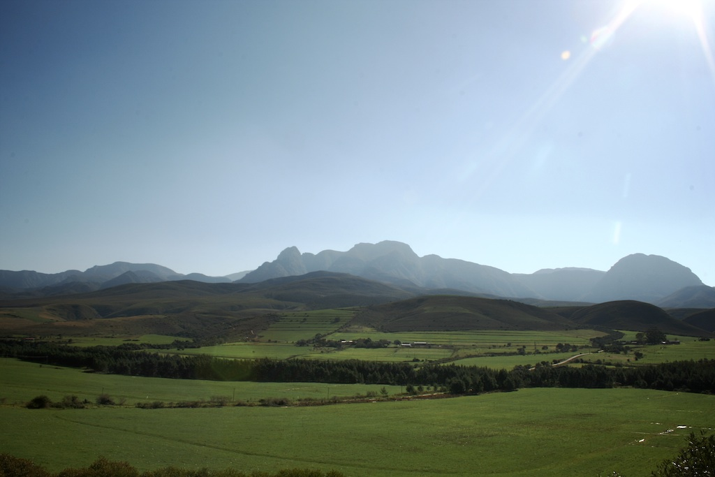 Outlying Valley in Heidelberg District